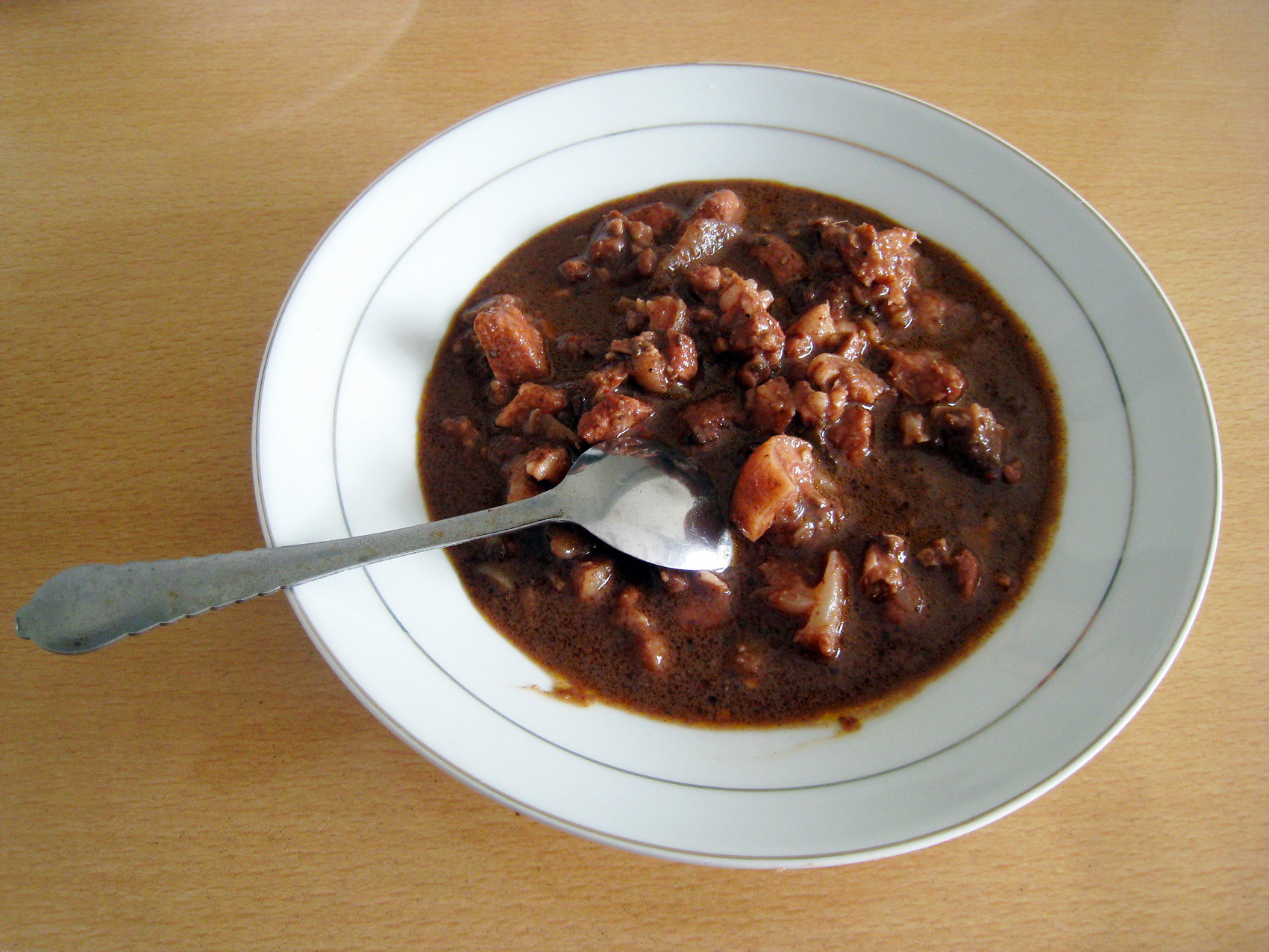 Batak cuisine, the saksang pork stew cooked in its blood and spices.